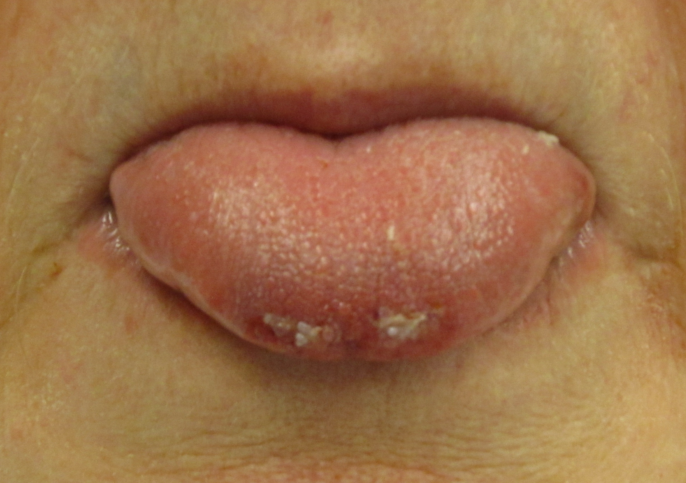 A tongue bite following a seizure